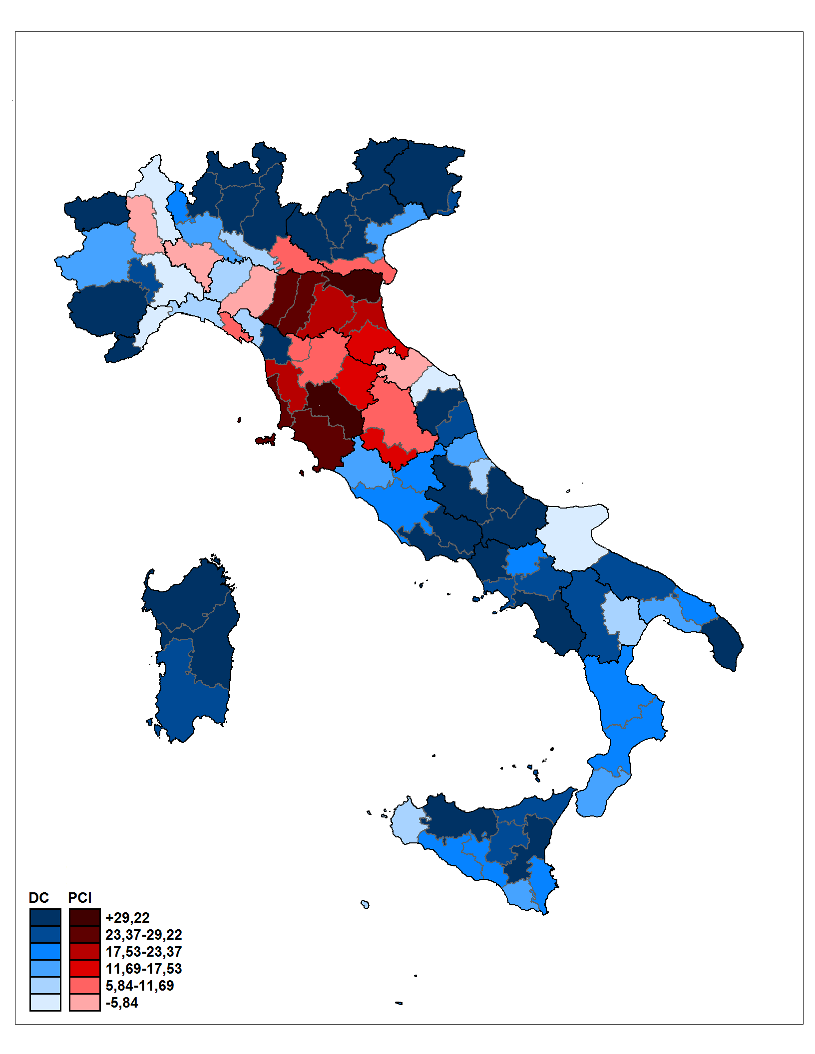 Distacco tra DC e PCI